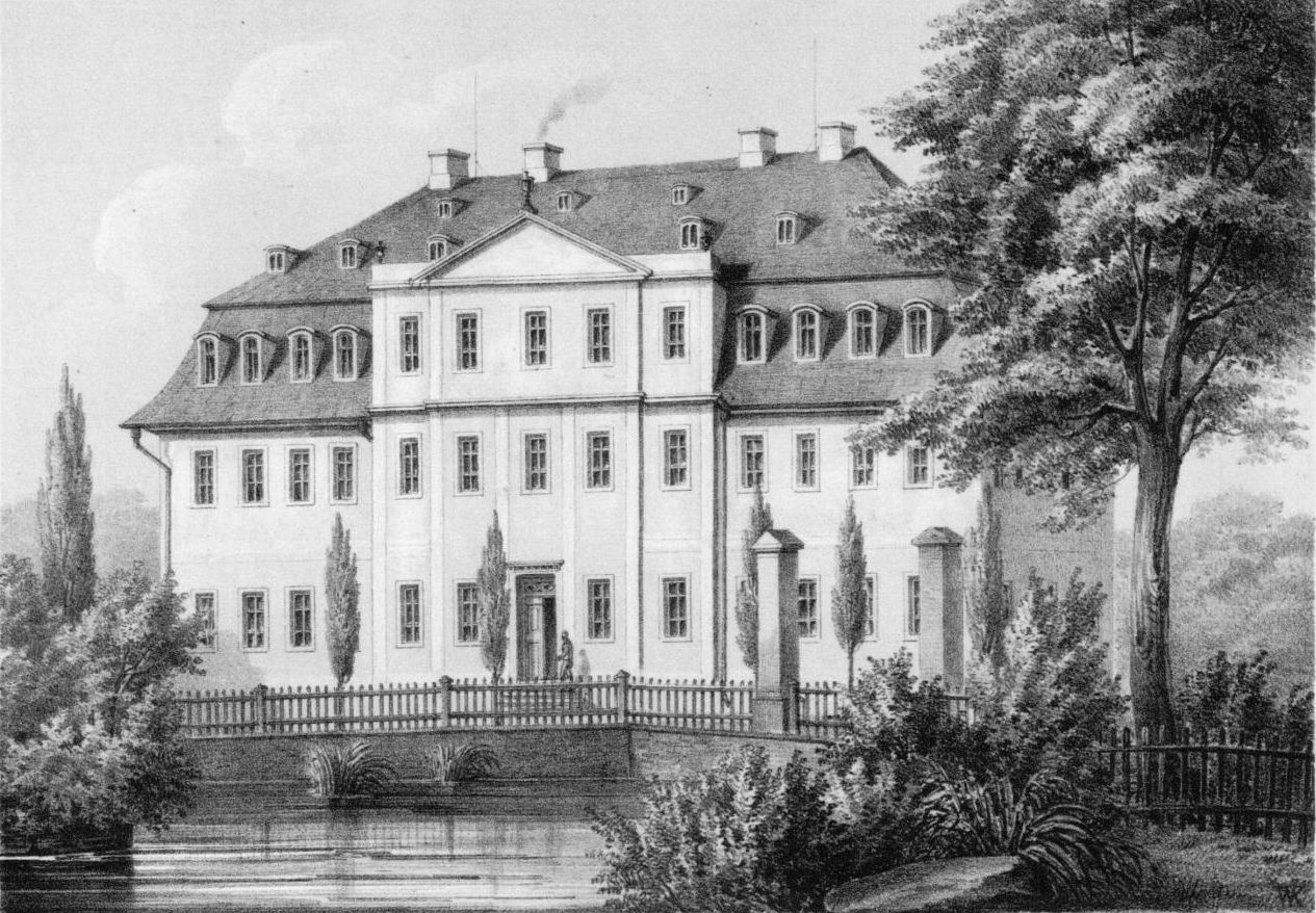 manor Reuth, Saxony in its estate of 1859